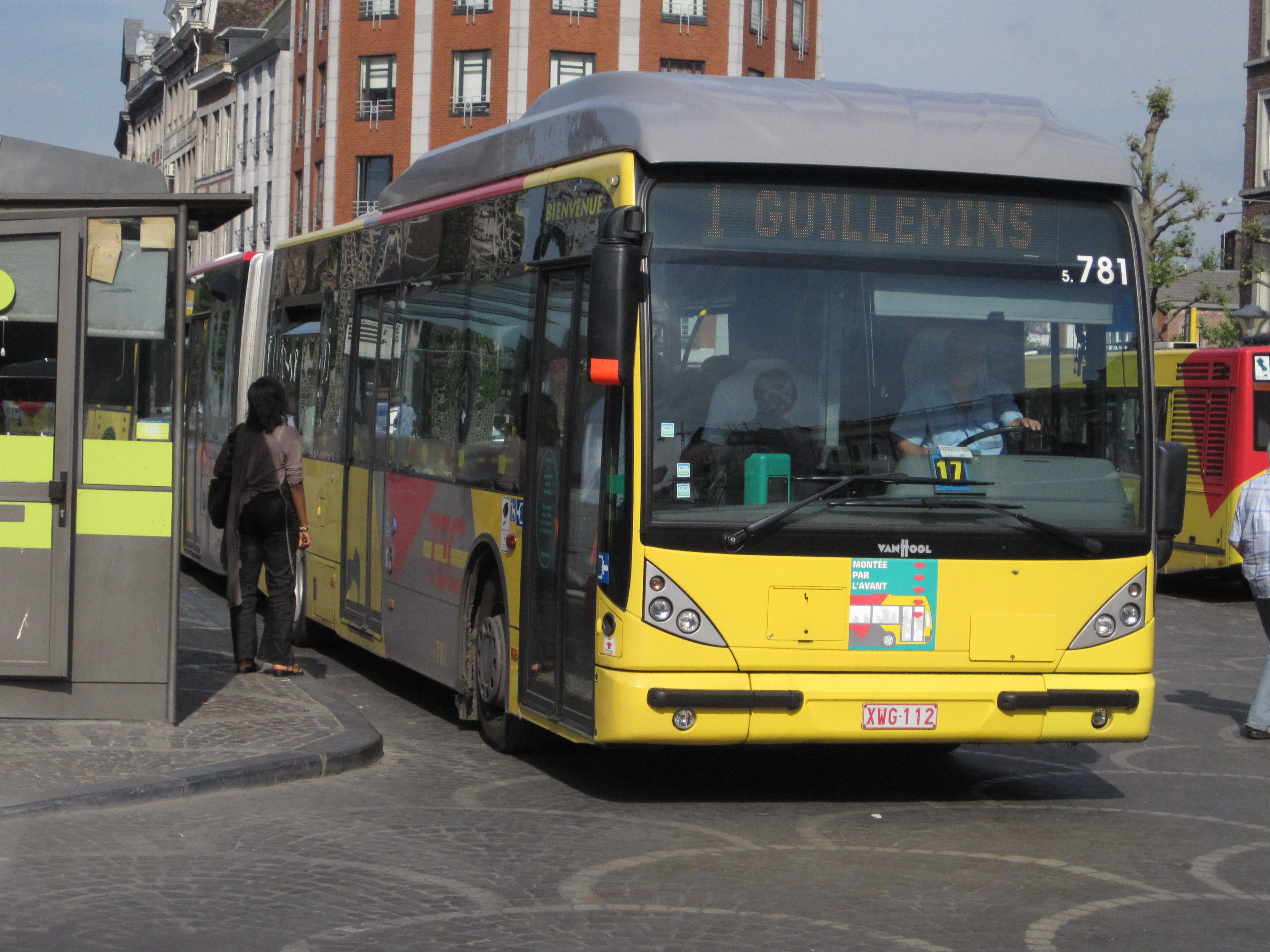 TEC-Bus in Liége, BE